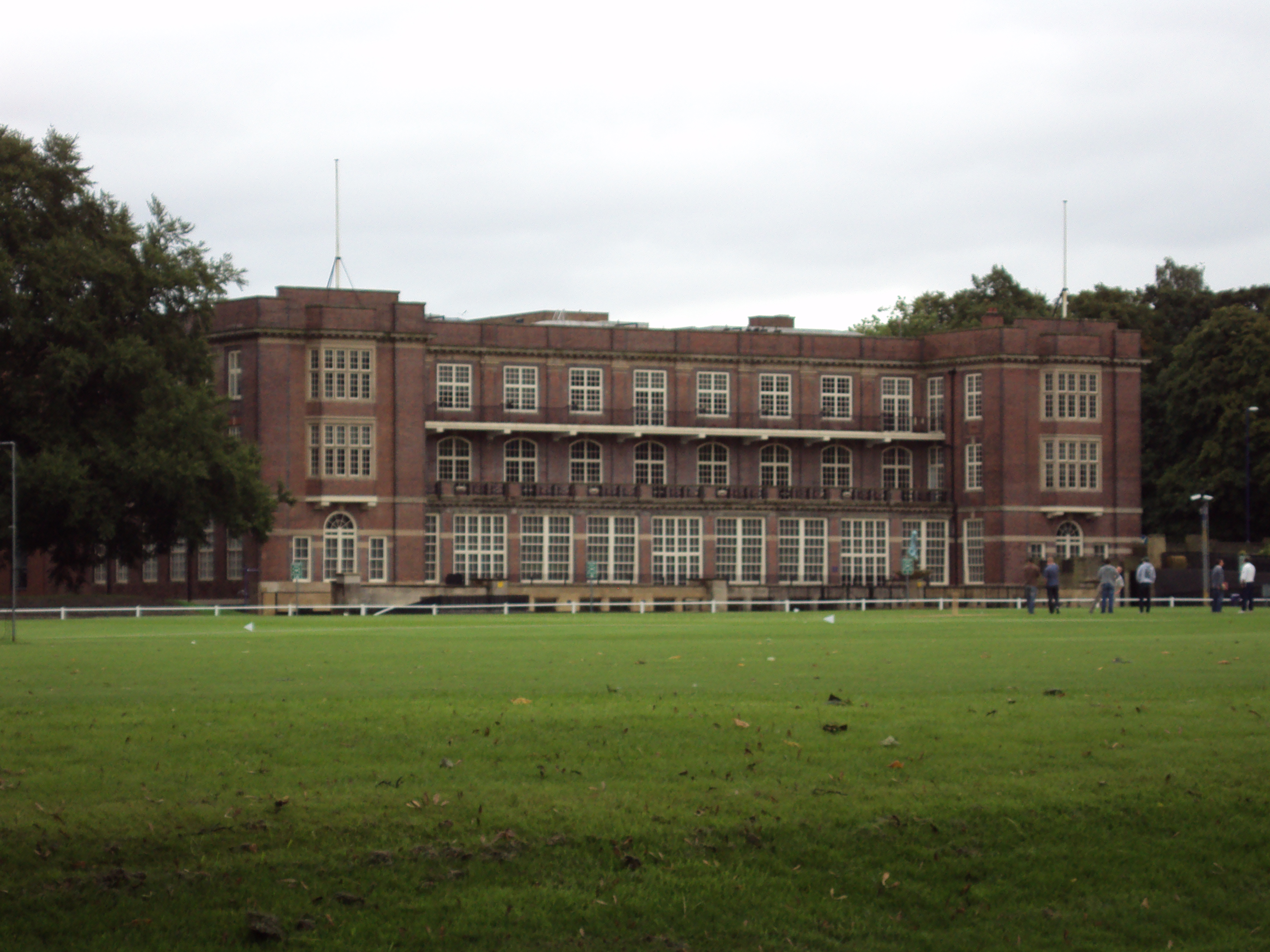 Building at Bournville Sports & Crown Green Bowls Club, Bournville, Birmingham, England.